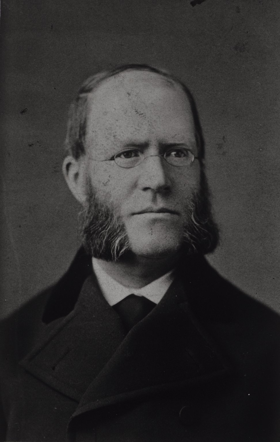 Calvin Ellis